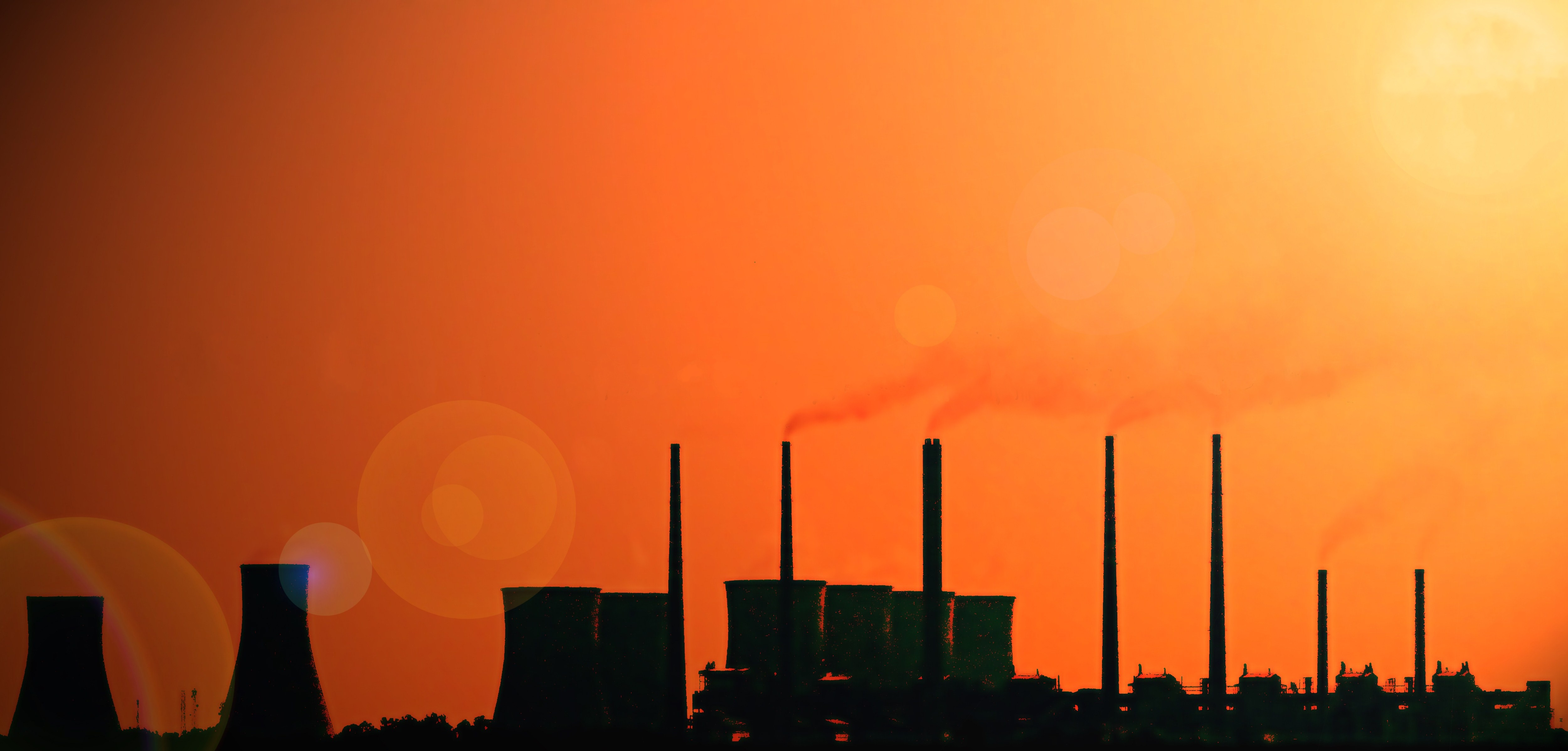 A thermal powerplant situated @ 20 kms away of raichur